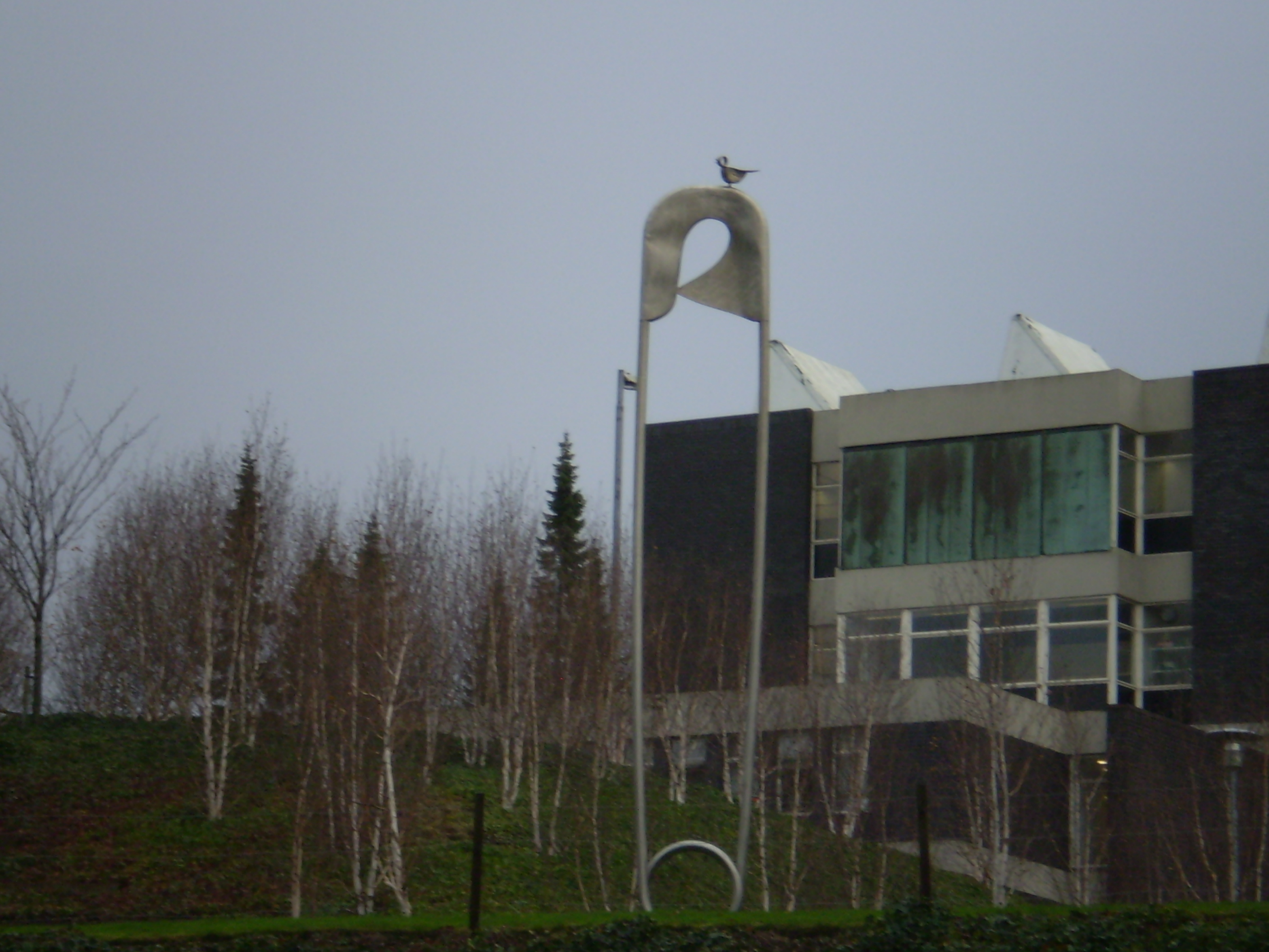 Memorial statue of Rottenrow Maternity Hospital in the shape of a nappy pin.